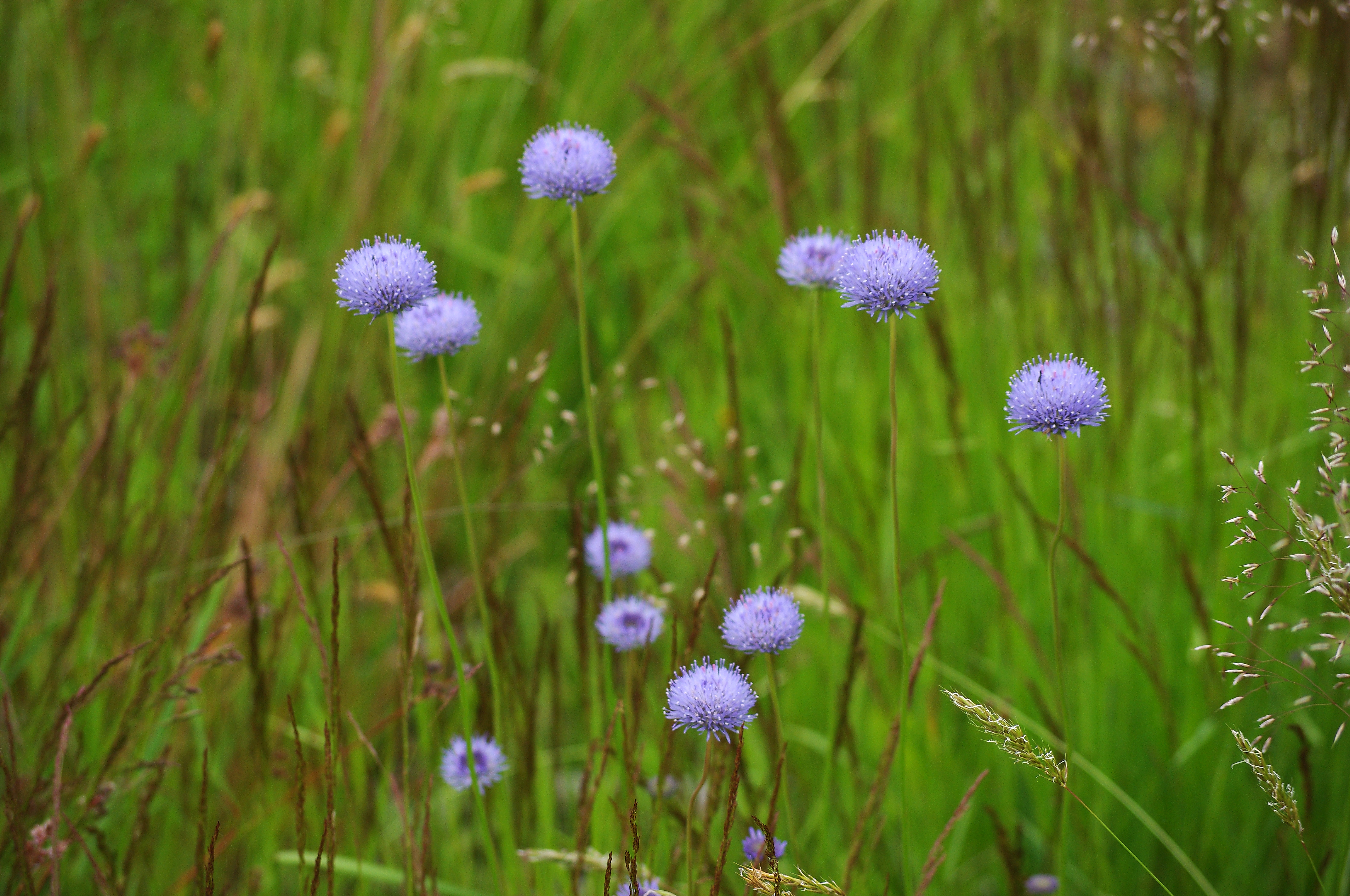 Jasione montana in Estonia.